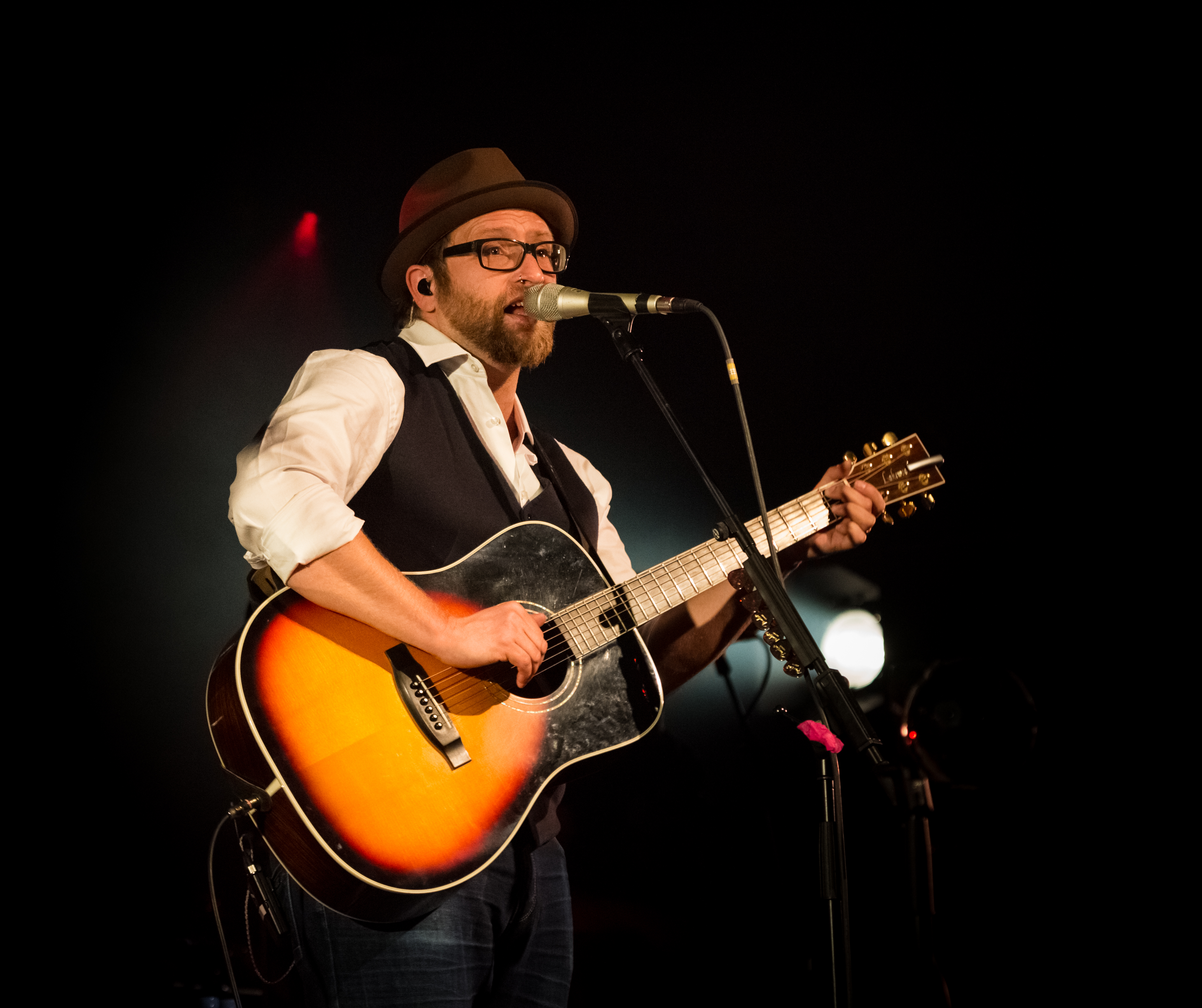 Gregor Meyle - Leverkusener Jazzt 2016